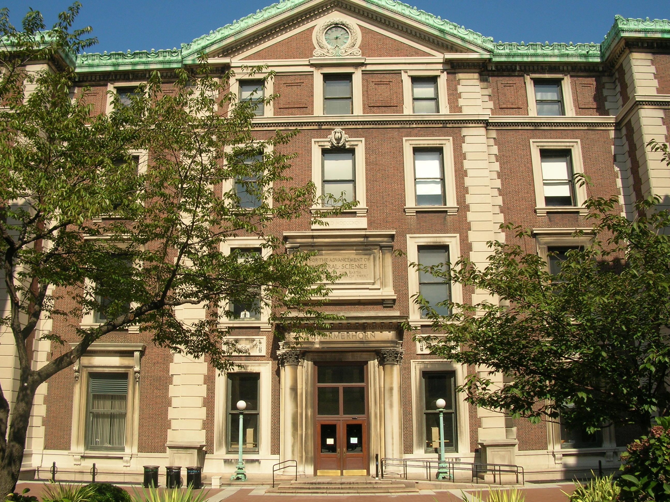 This photo is of Wikis Take Manhattan goal code A1, Schermerhorn Building.